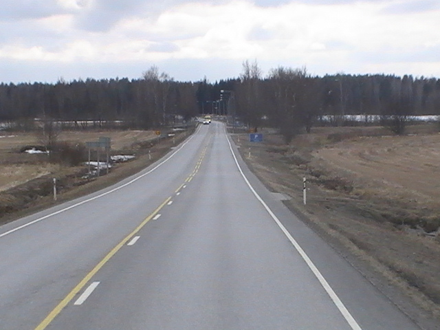 Finnish national road 43 at Kiukainen, Eura. The road runs from Uusikaupunki to Harjavalta and It has a high traffic volume, especially between Eura and Harjavalta.